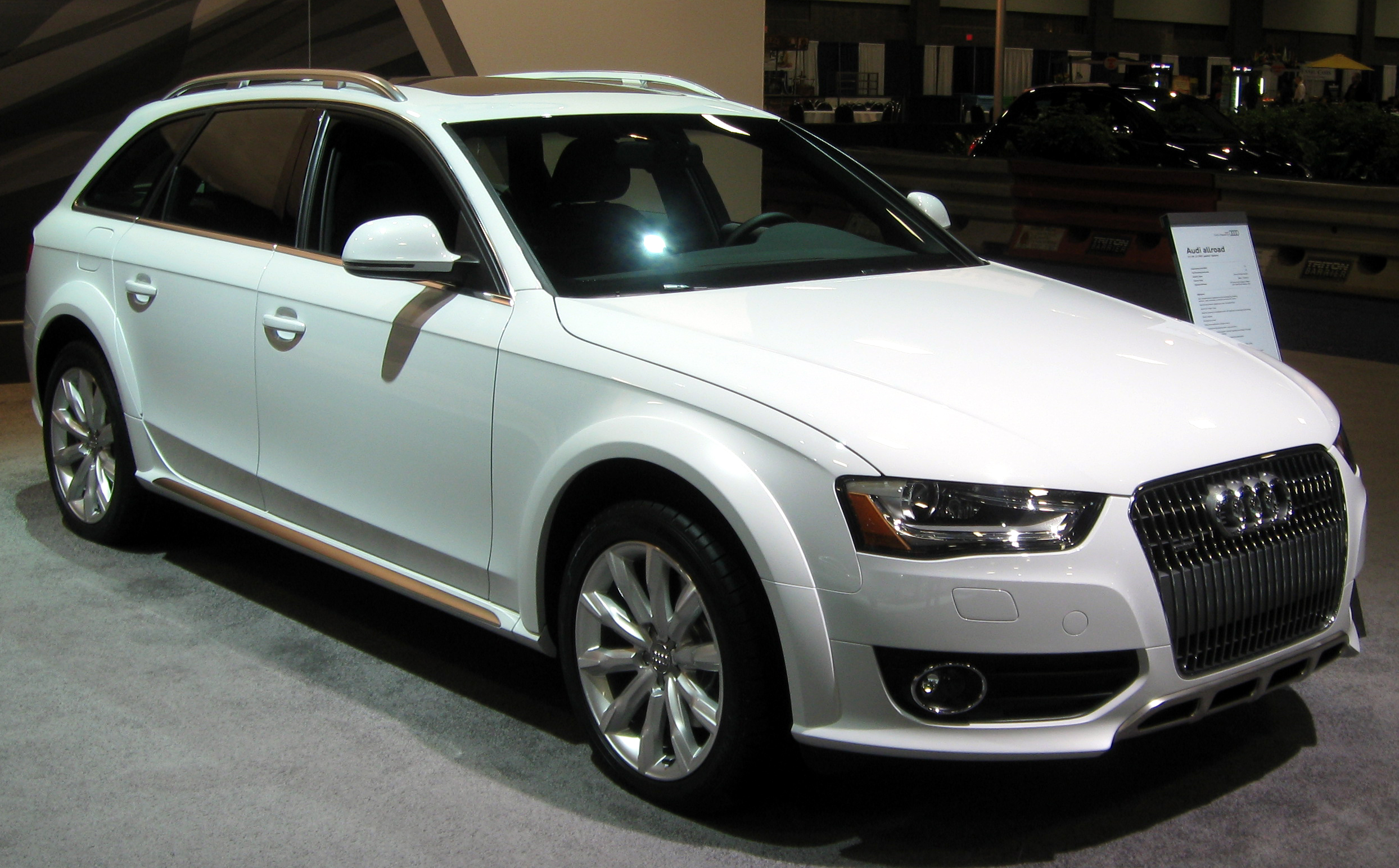 2012 Audi A4 Allroad photographed in Washington, D.C., USA.